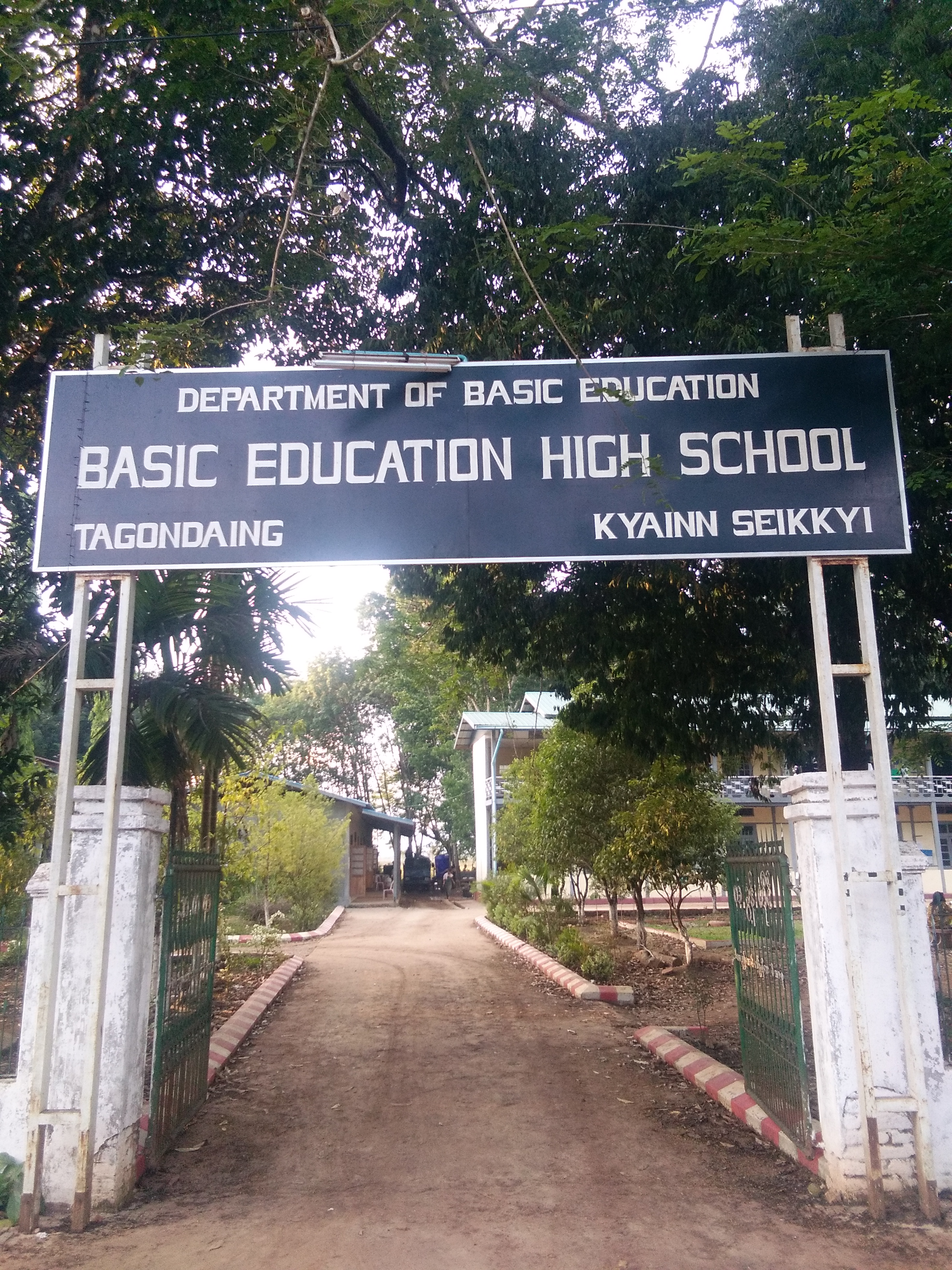 Signboard of Basic Education High School Ta Khun Taing or Tagondaing